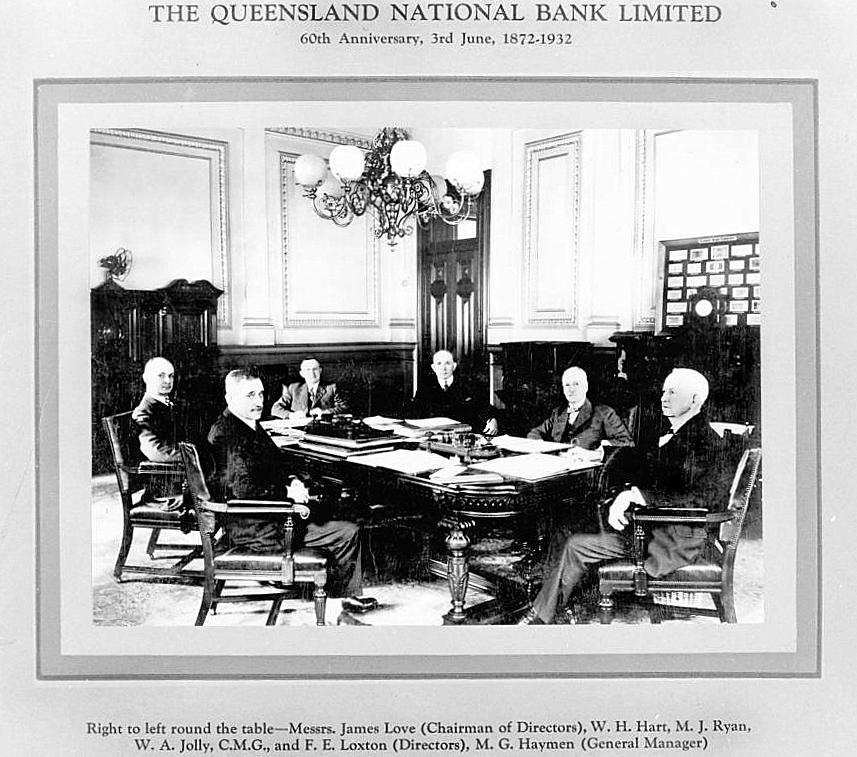 Board of Directors of the Queensland National Bank Limited, Brisbane, 1932. Right to left around the table : James Love (Chairman of Directors), W. H. Hart, M. J. Ryan, W. A. Jolly, (C.M.G.) and F. E. Loxton (Directors) and M. G. Haymen (General Manager). The group portrtait was taken on the 60th anniversary on 3rd June 1932. (Description supplied with photograph.).